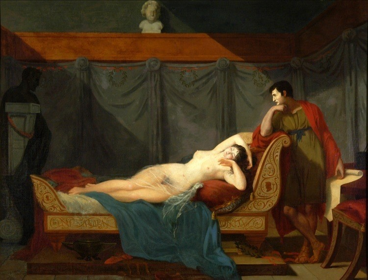 Double portrait of Lucien and Alexandrine Bonaparte